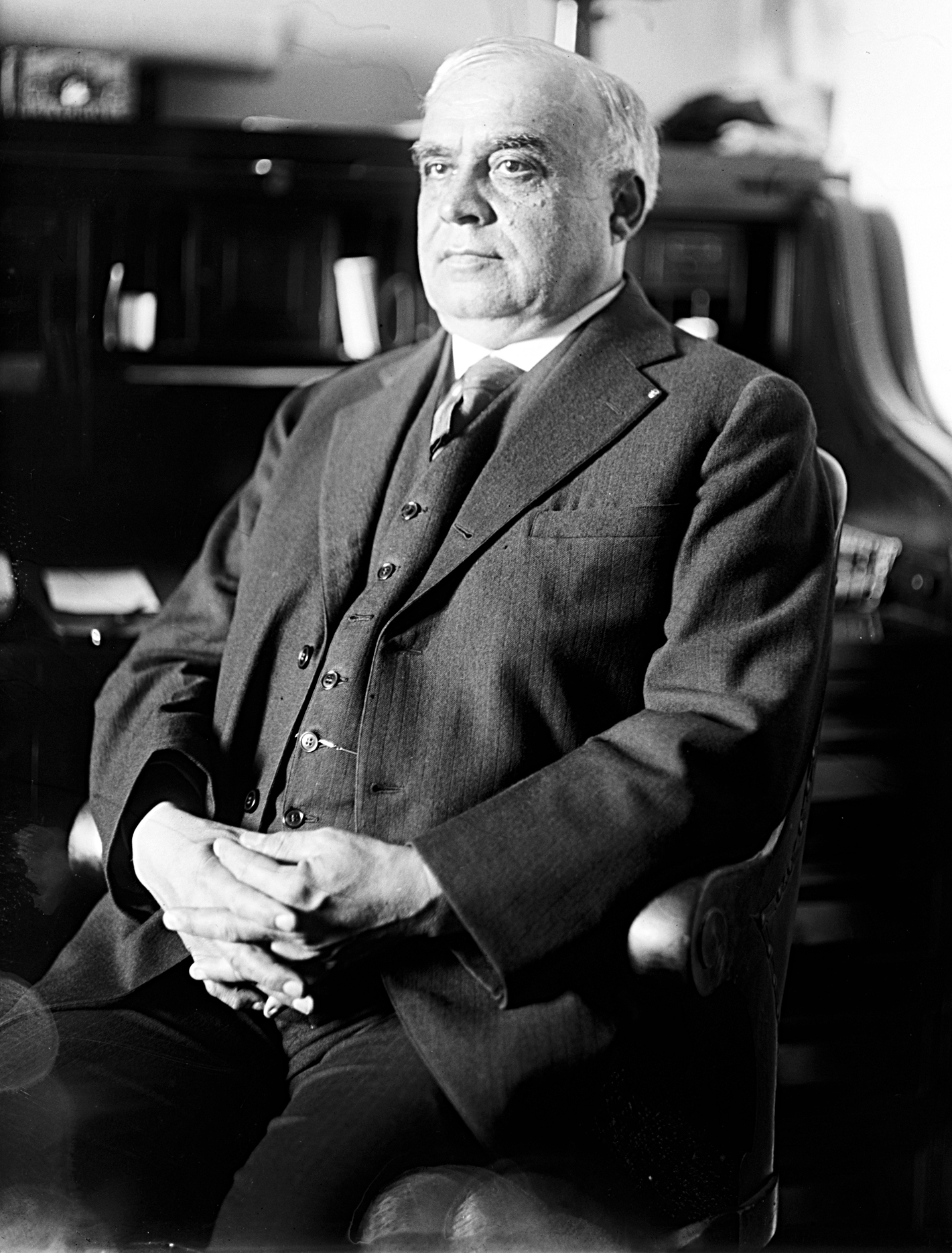 Florian Lampert, US Representative from Wisconsin